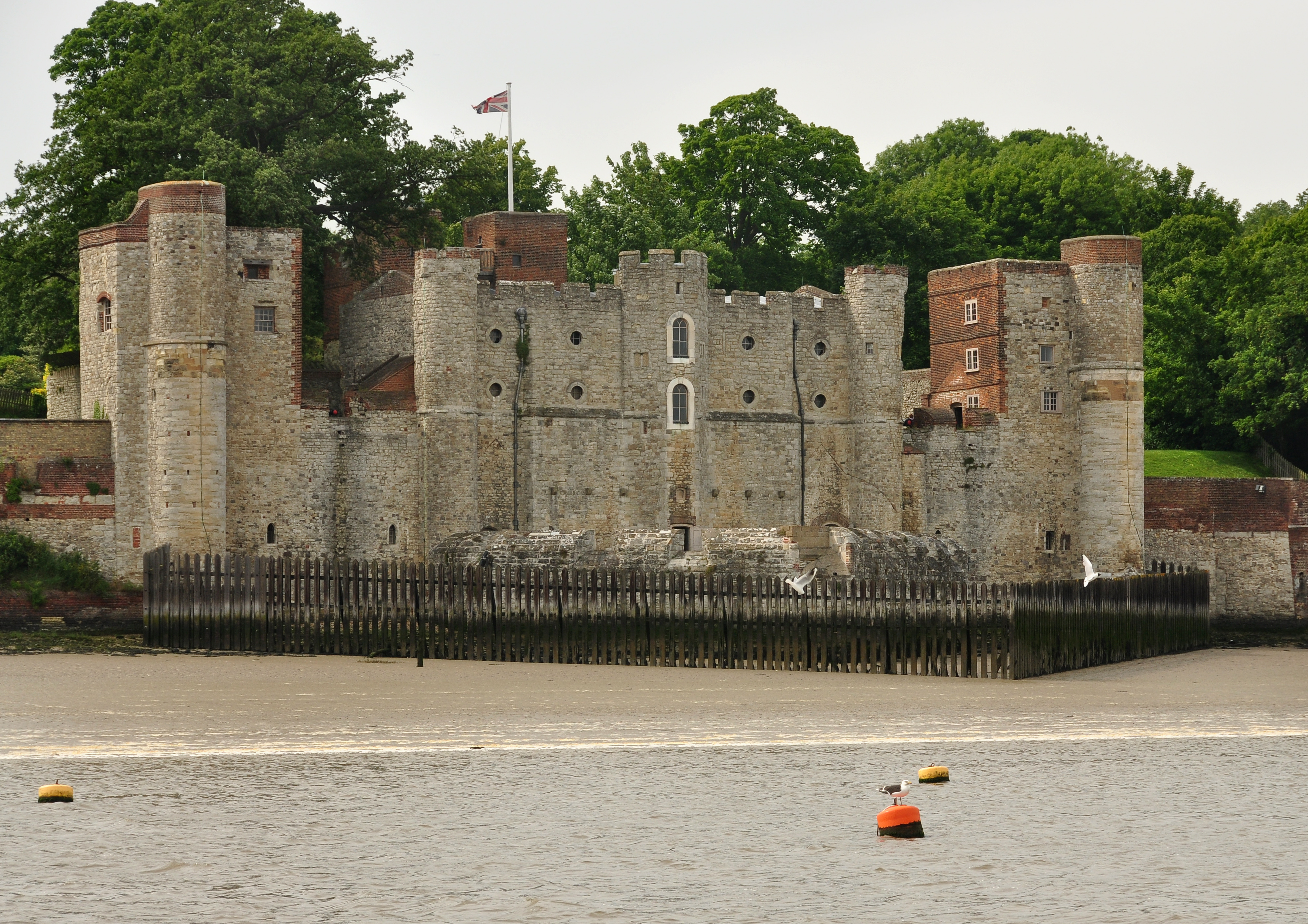 Upnor Castle, Kent, seen from the Medway Estuary.